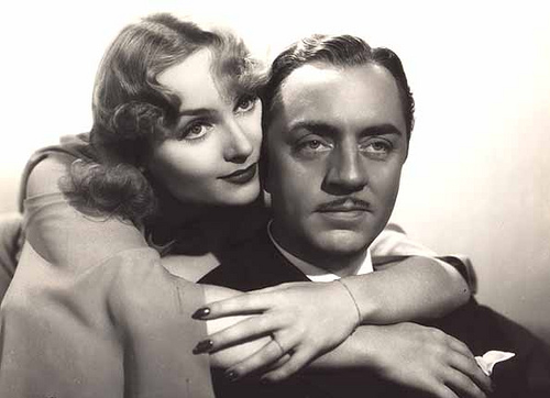 Carole Lombard and William Powell in a publicity still for the film My Man Godfrey. Hollywood studios distributed such images to the media and the public for promotional purposes.